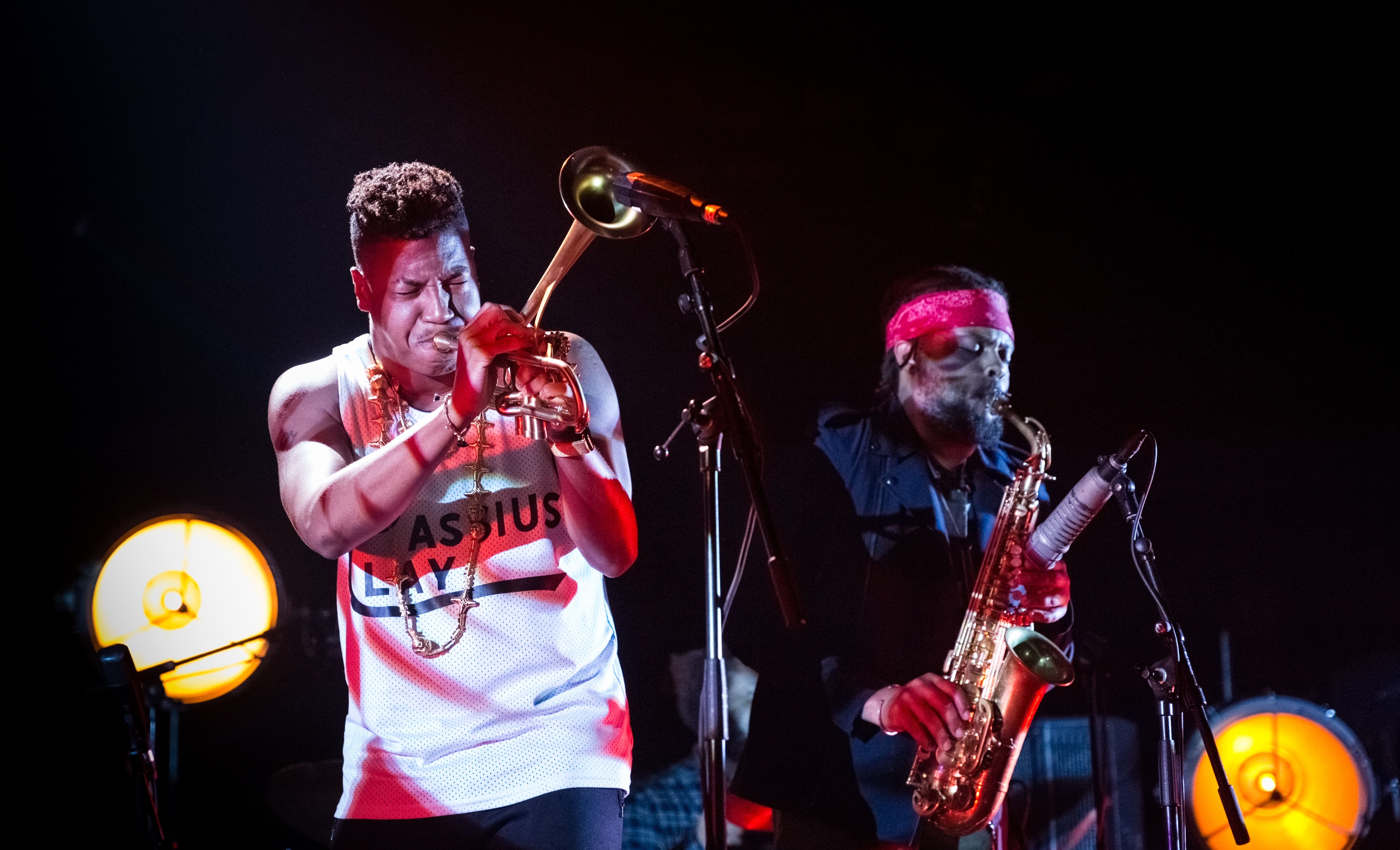 Christian Scott - Leverkusener Jazztage 2016